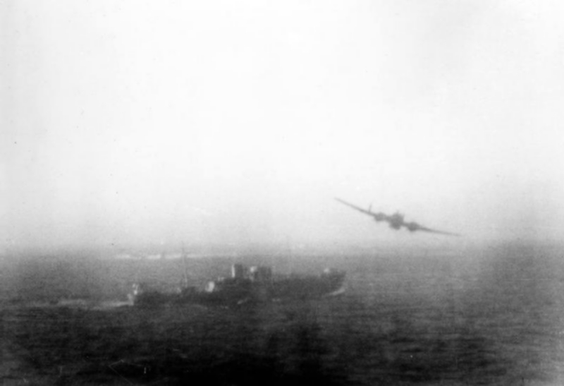 A Handley Page Hampden TB Mark I sweeps over the target during a torpedo attack by 7 aircraft from No. 455 Squadron RAAF and No. 489 Squadron RNZAF on an armed German supply ship off Egero, Norway. After a number of hits the vessel blew up and sank by the stern.